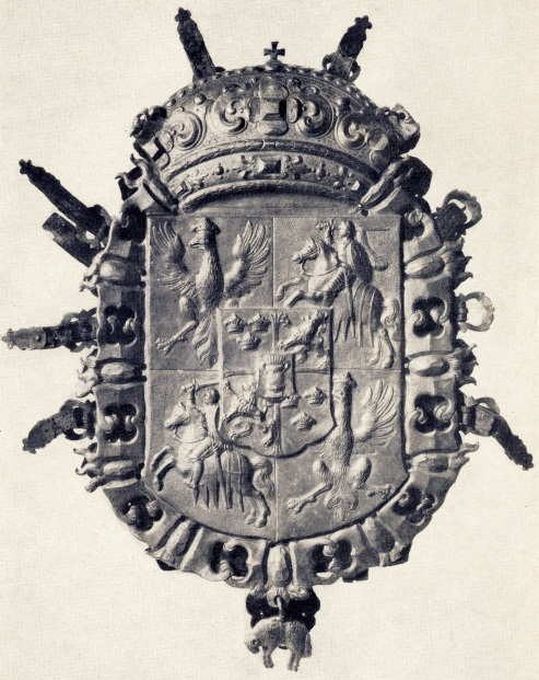 Photograph